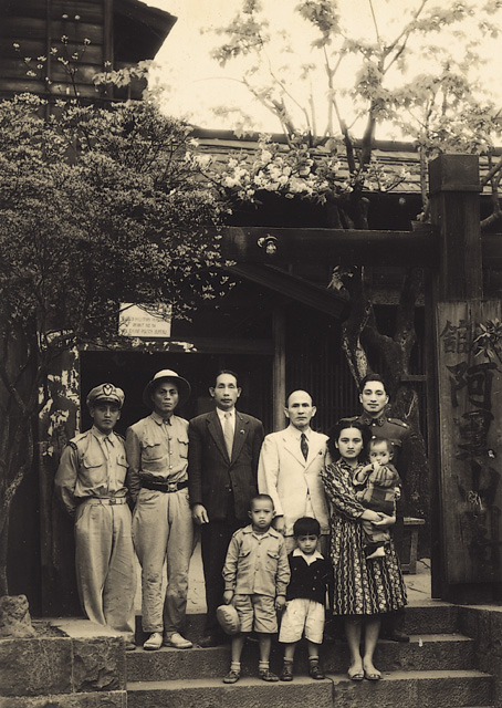 All three killed by brutal regime from China in 1954